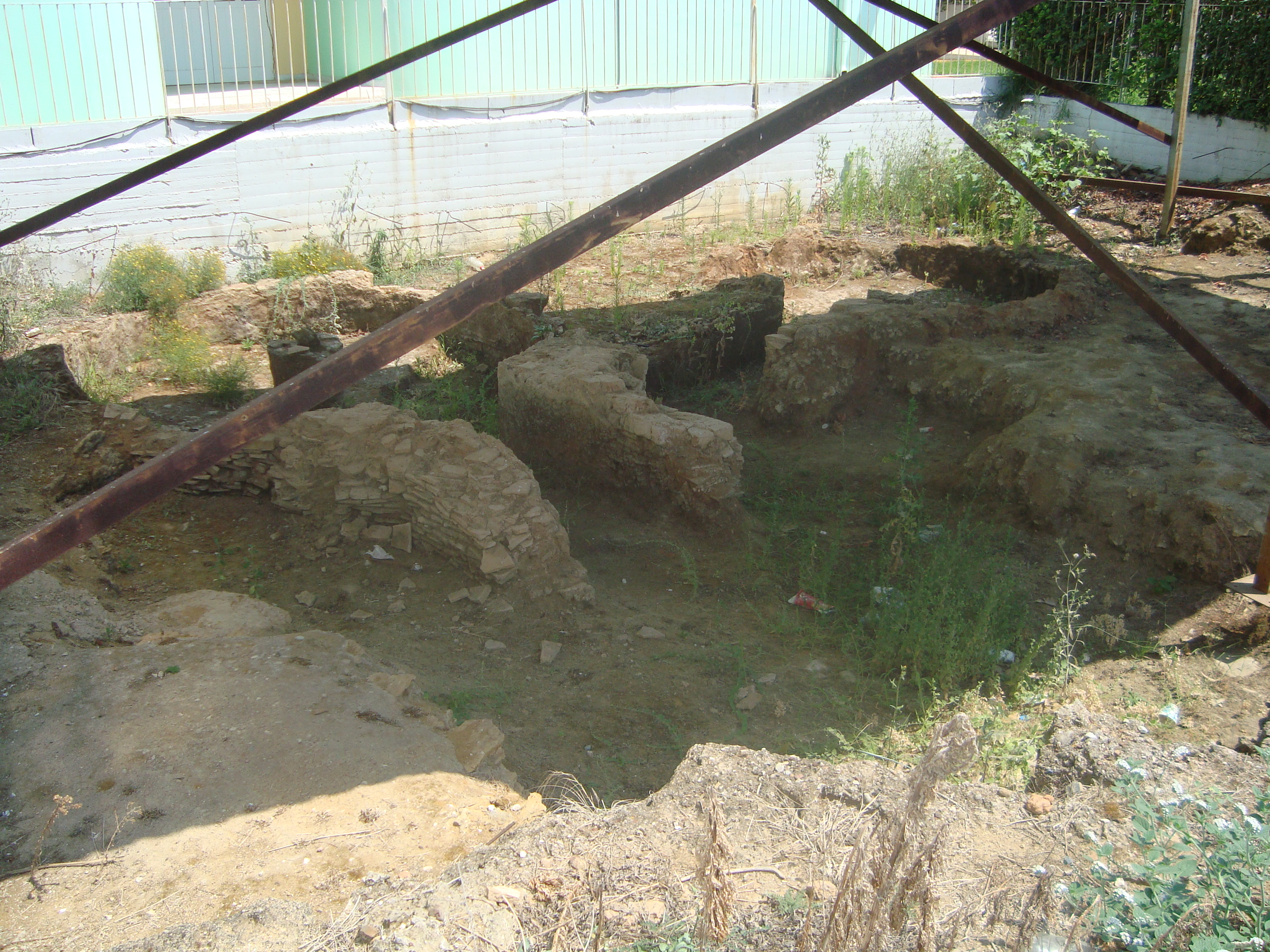 Ancient Kato Achaia